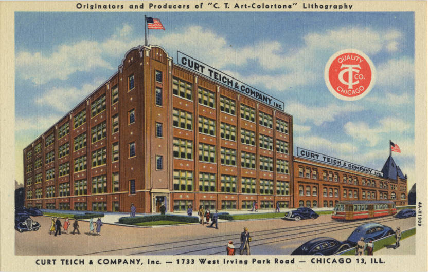 Originators and Producers of CT Art-Colortone Lithography, Curt Teich & Company, Inc. Advertising Curt Teich Postcard #4AH1909. Curt Teich Postcard Archives Digital Collection (Newberry Library).